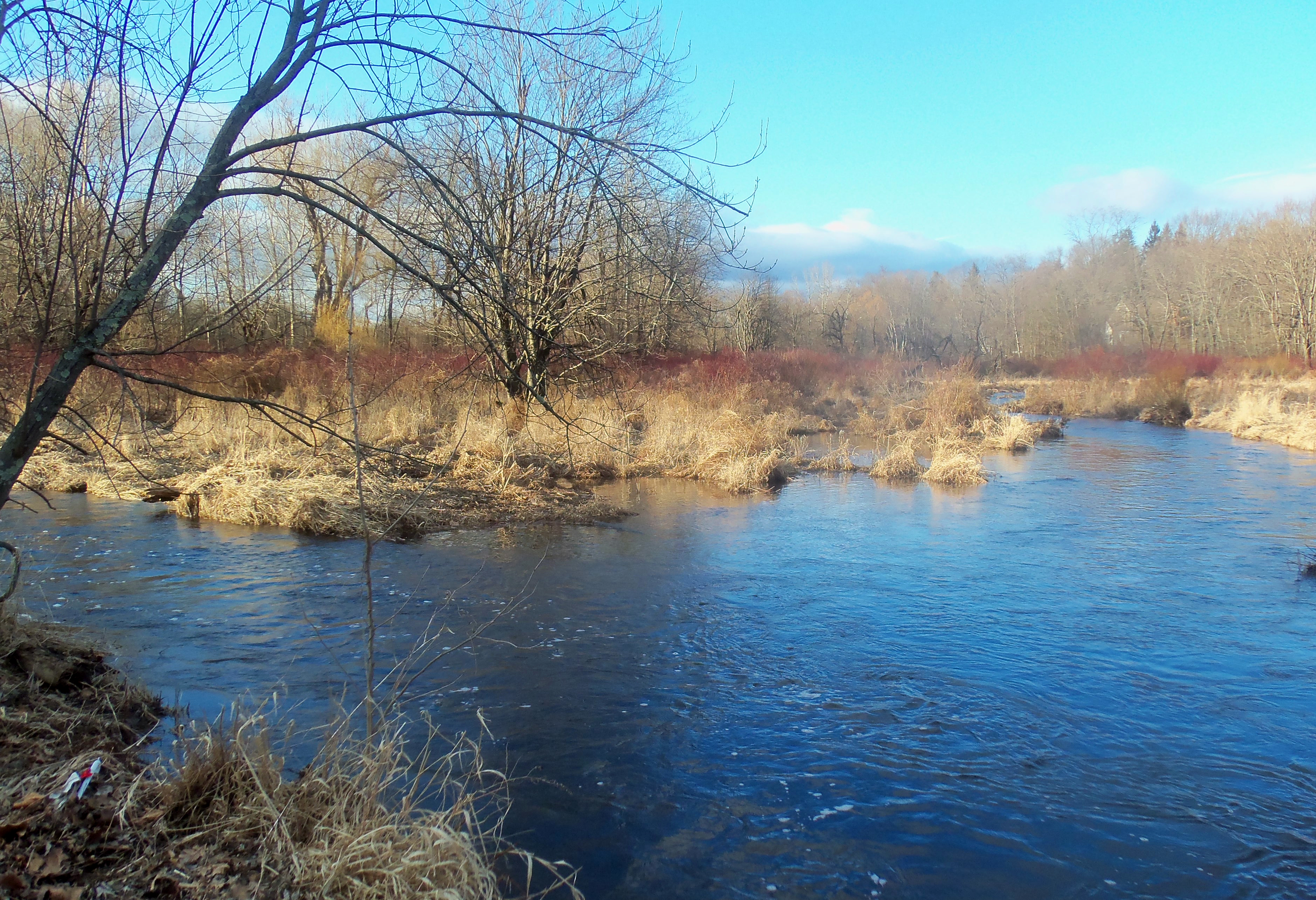 Confluence of Quassaick Creek and its largest tributary, Bushville Creek, in the Town of Newburgh, NY, USA